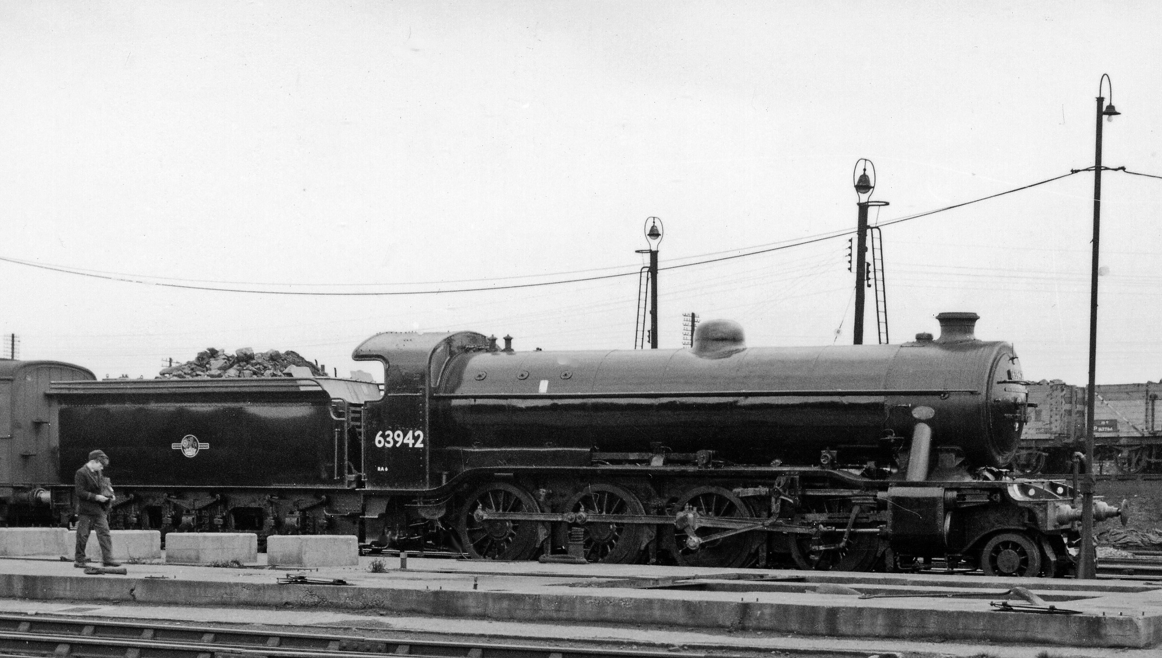 LNER 2-8-0 at Doncaster Locomotive Depot fresh from repair at the Works. No. 63942 is one of the earlier Gresley Class O2/2 2-8-0's with spartan GN-style cab, built 3/24. Evidently other 'train-spotters' were admiring this unusually sparkling locomotive